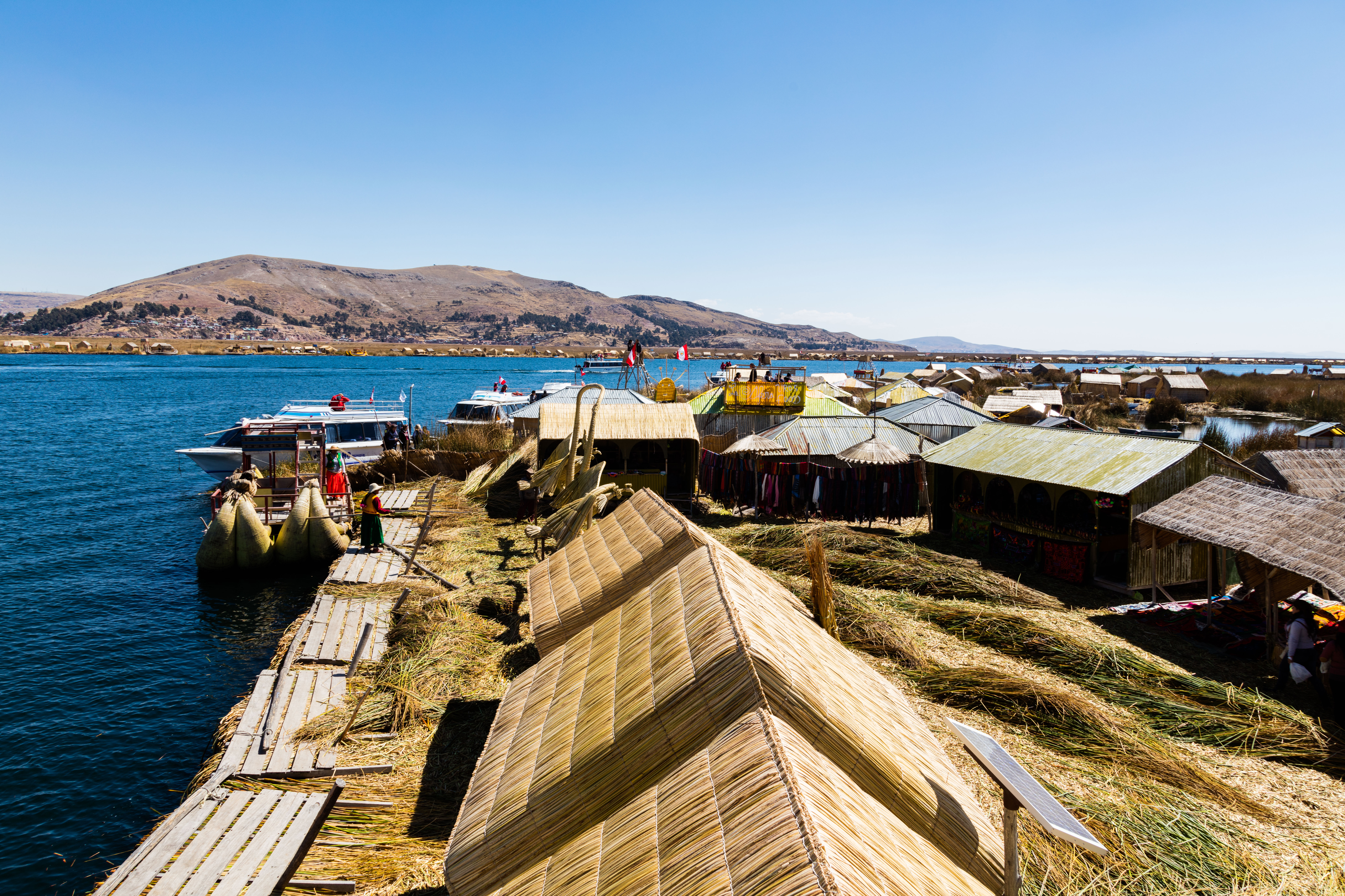 Uros floating islands, Titicaca Lake, Peru